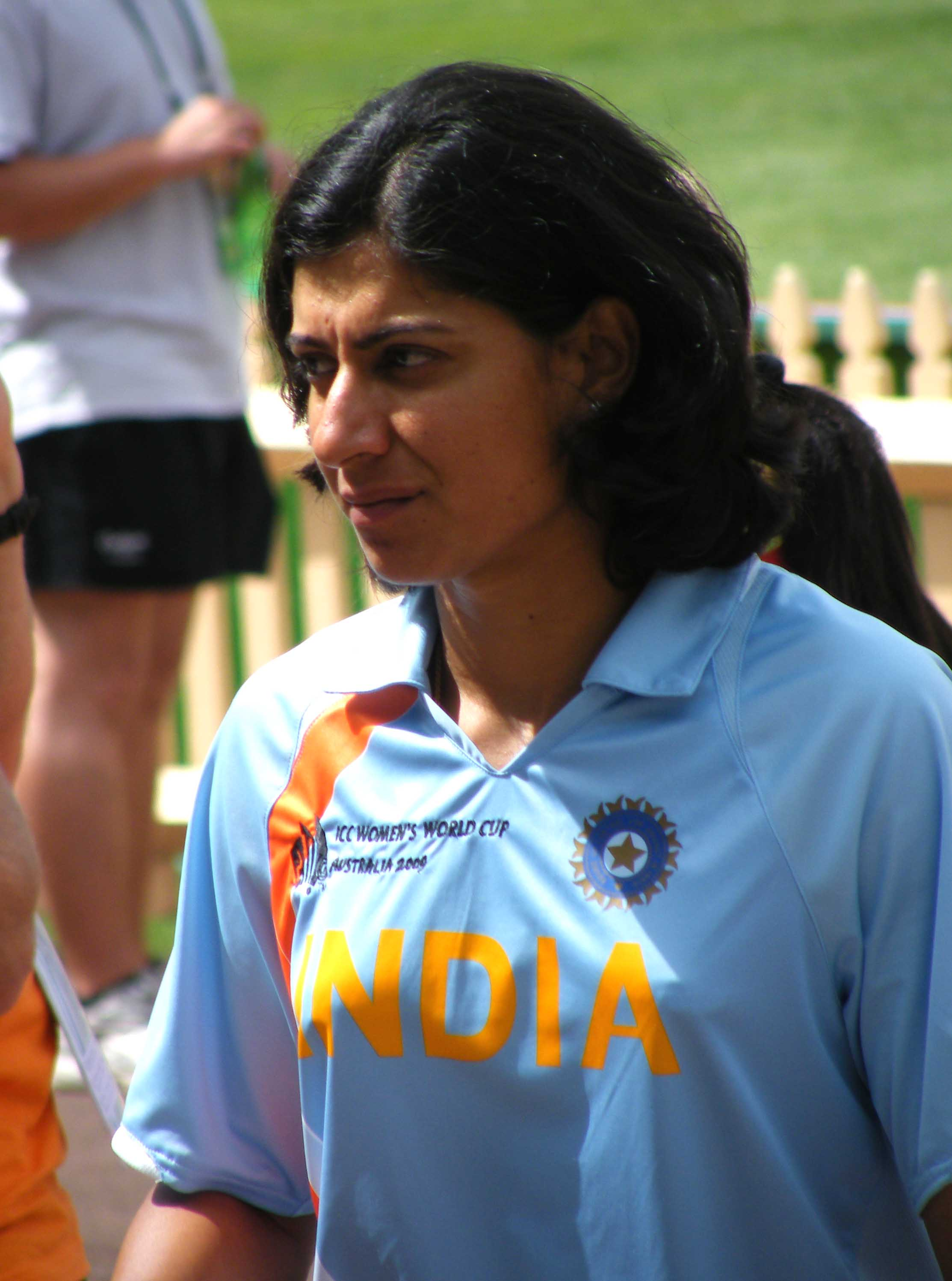 Anjum Chopra of India - ICC Women's Cricket World Cup, Sydney, March 2009.